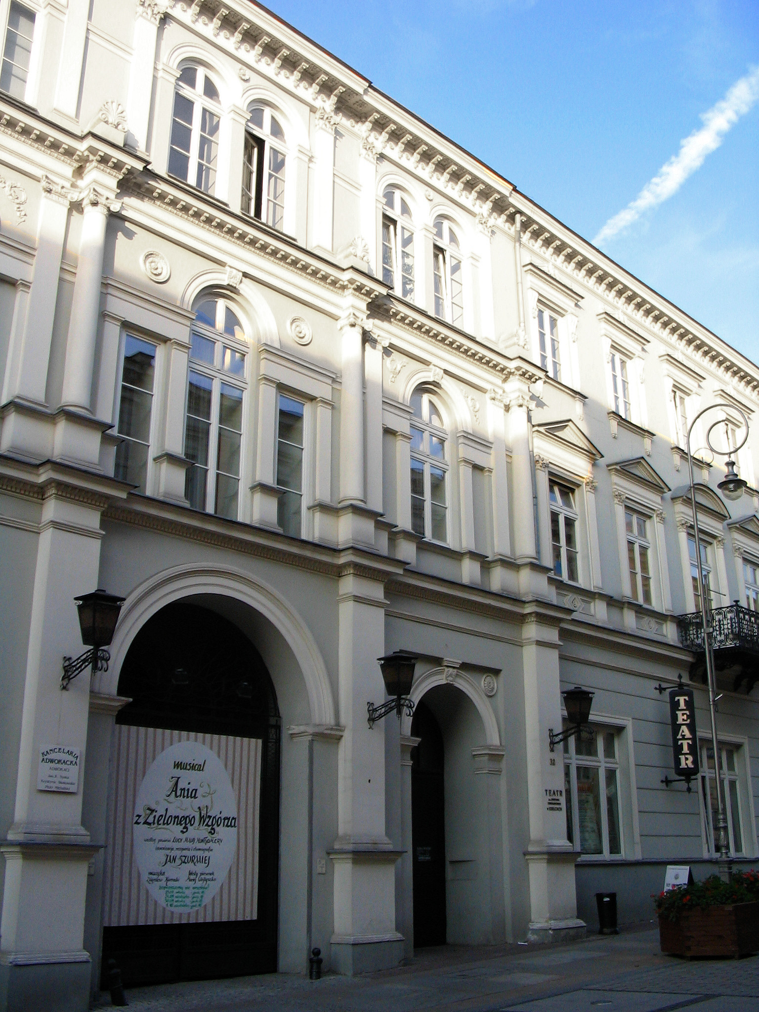 Żeromski Theatre in Kielce